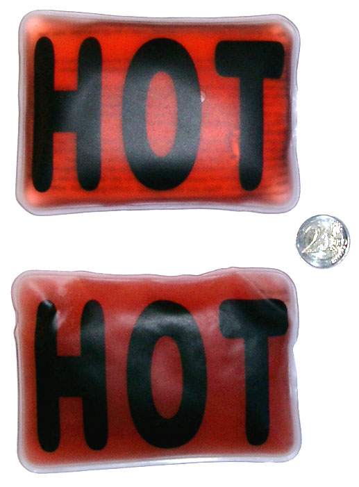 Author: own work Date: 2006 02 22 Description: 2 s (before and after use) with a 2 euro coin